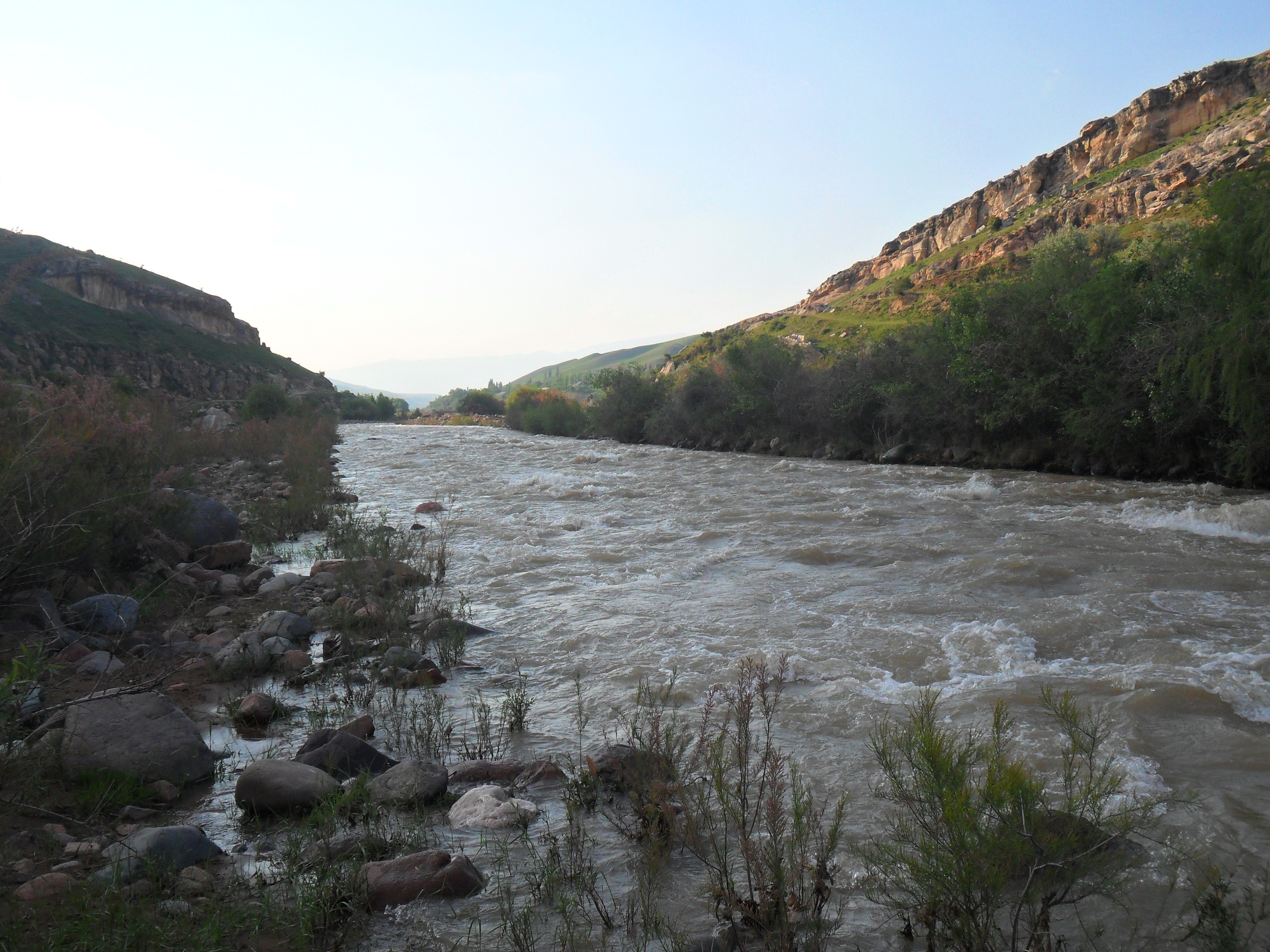 Aksakata river. Tashkent area, Uzbekistan.